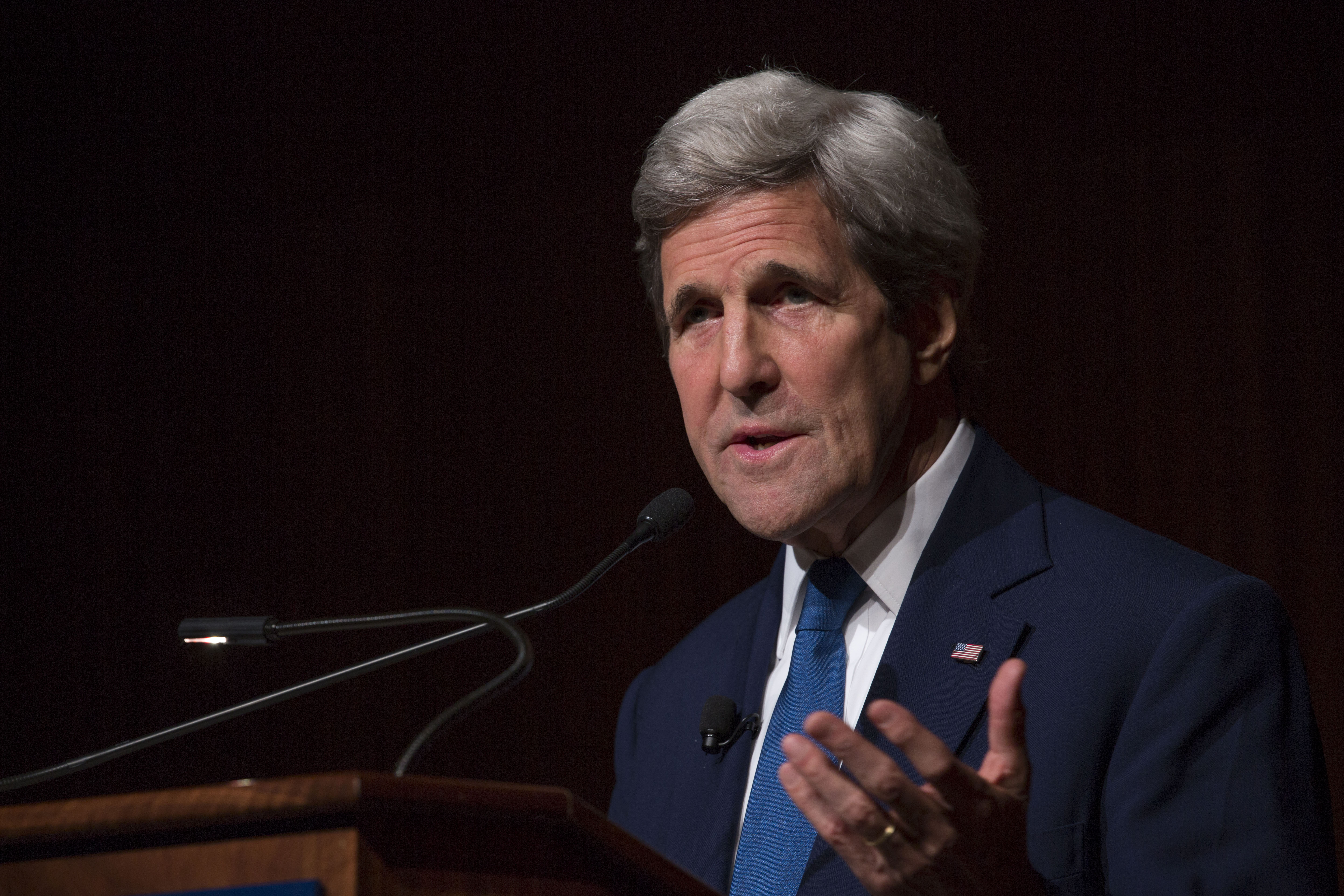 U.S. Secretary of State John Kerry, a Vietnam War veteran, delivers the keynote address at the LBJ Presidential Library’s Vietnam War Summit on Wednesday, April 27, 2016. Kerry, a former U.S. senator and co-founder of Vietnam Veterans of America, gained national attention when he spoke out publicly against the Vietnam War after returning from two tours of duty. Kerry’s speech was part of the LBJ Library’s three-day Vietnam War Summit, which continues on Thursday, April 28.